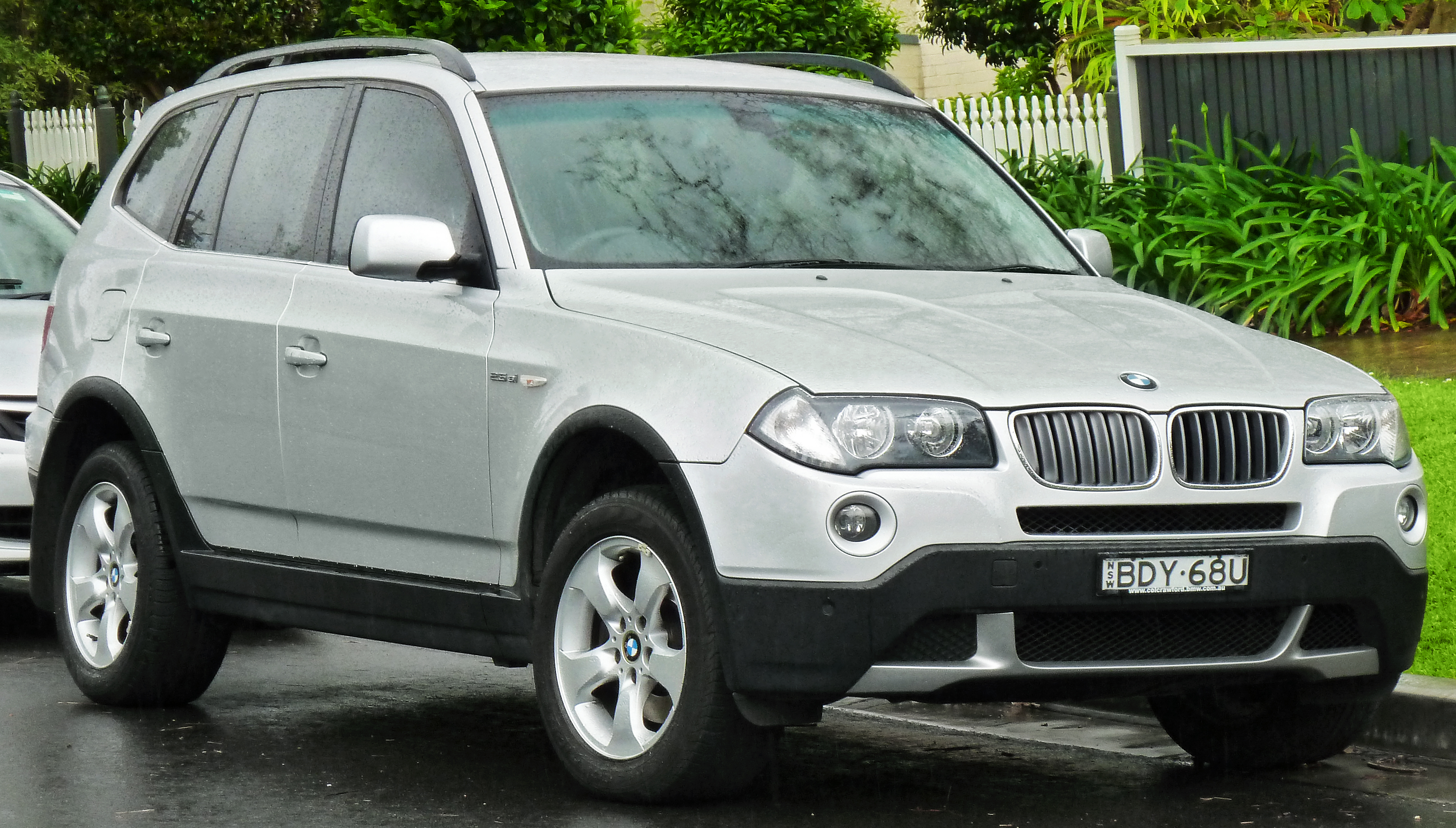 2006–2008 BMW X3 (E83) 2.5si wagon. Photographed in Roseville, New South Wales, Australia.